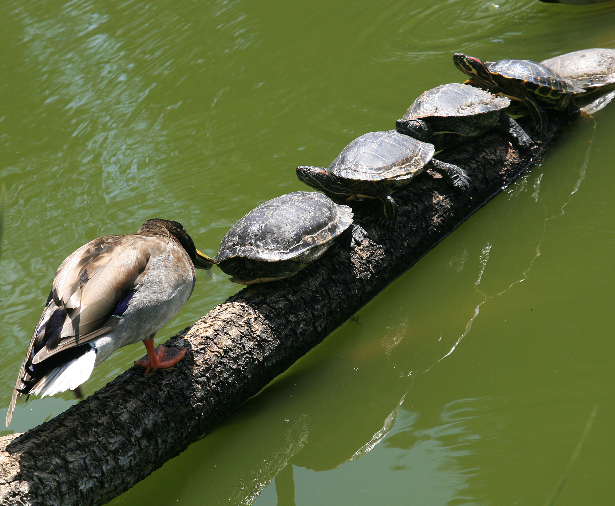 Red-eared slider, Trachemys scripta elegans and male Mallard in Golden Gate Park, USA.